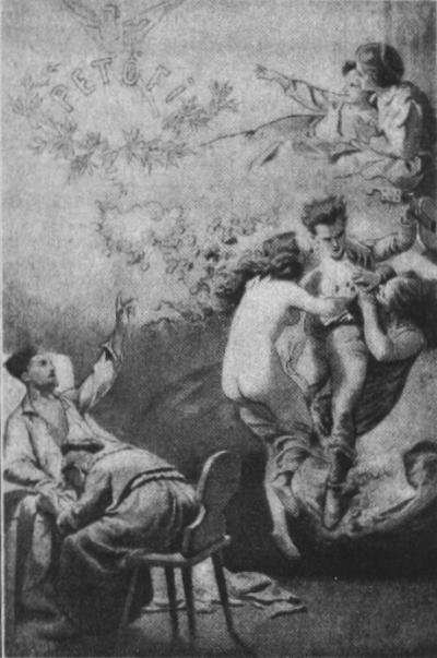 Mihály Zichy Petofi glorification; Old drawing (pre-1906), copyright protection has expired